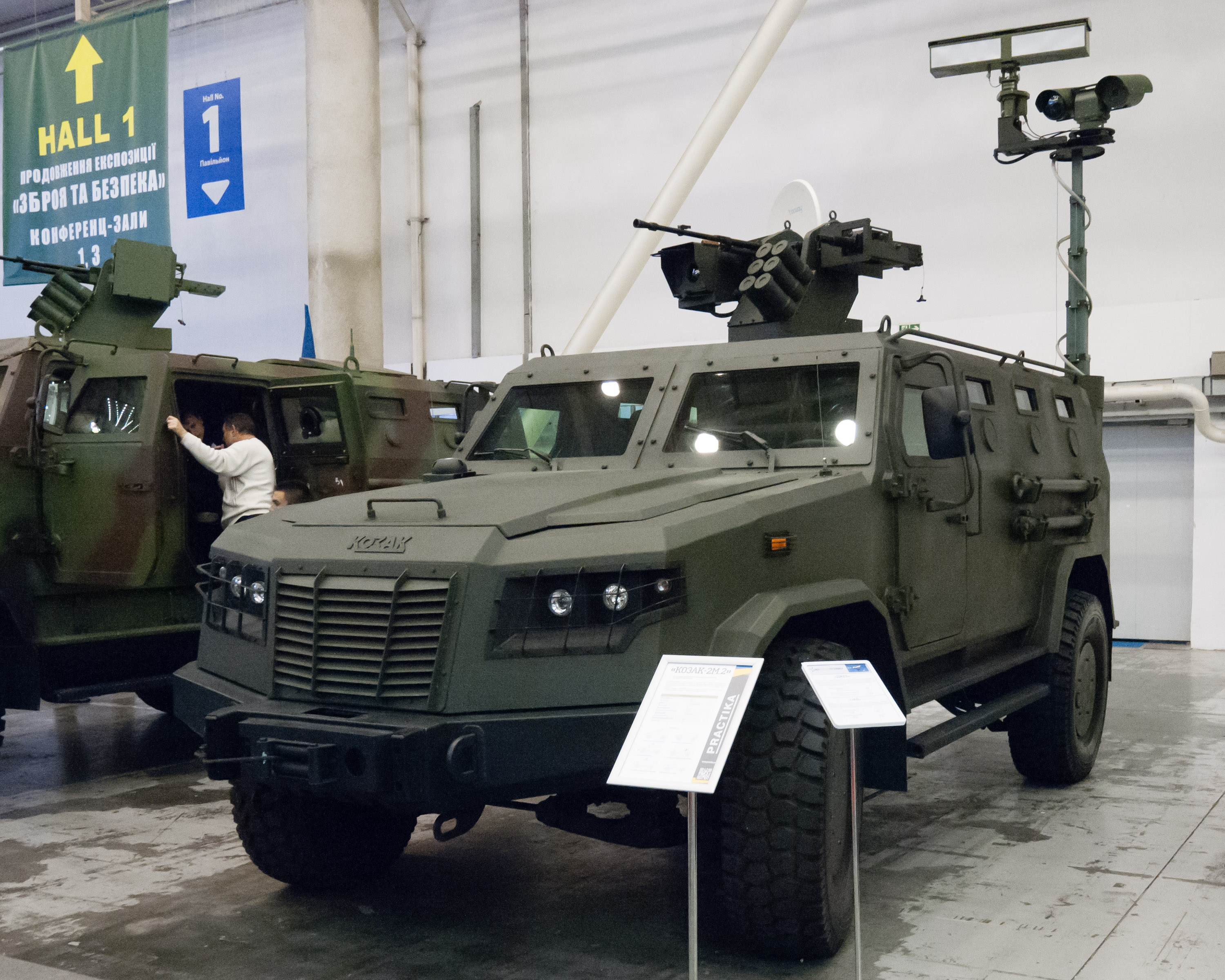 Kozak-2M.2 vehicle with JAB electronic warfare/reconnaissance module (Ukraine)